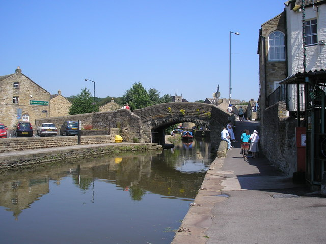 The Springs Branch, Leeds and Liverpool Canal, Skipton (1) This photograph shows the Springs Branch leading off northwards from its junction with the main canal line. The branch is less than a mile long and ends below the walls of Skipton Castle.